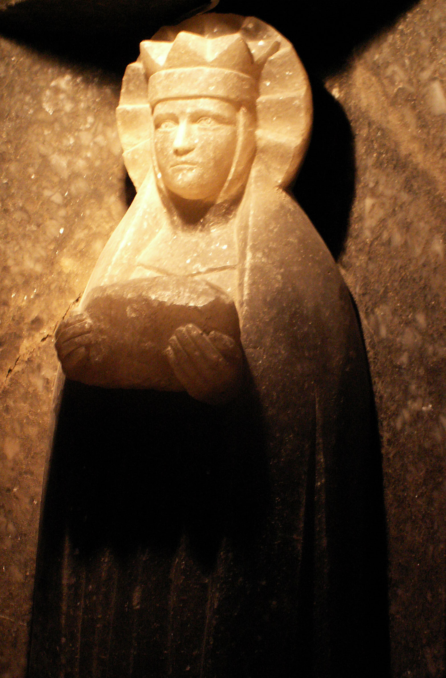 In the salt mines of Wieliczka, a statue of Saint Barbara, patron saint of miners.